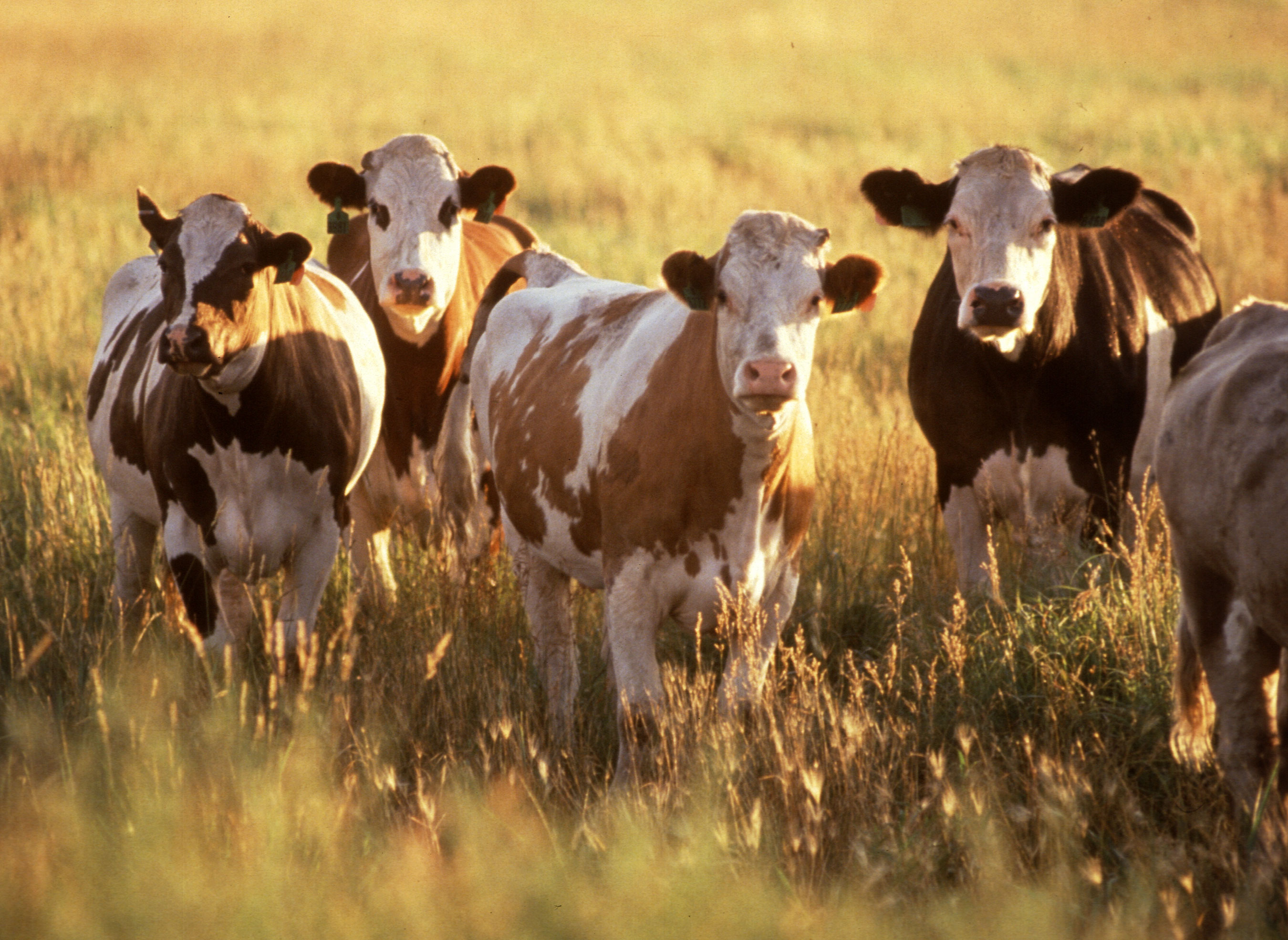 Original caption: “A simple blood test that checks the blood urea nitrogen (BUN) levels in cattle can help producers fine-tune their herd's feeding regimen.”